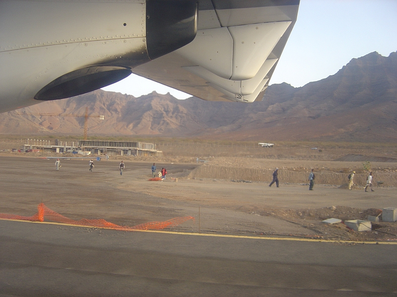 Works on the Airport of São Pedro (VXE), São Vicente Island, Cape Verde, seen from an ATR-200 of TACV-Cabo Verde Airlines